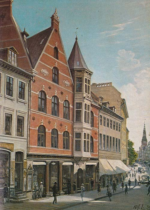 Gads Boghandel at Vimmelskaftet 32 in Copenhagen, Denmark. Painting by Alfred Larsen.